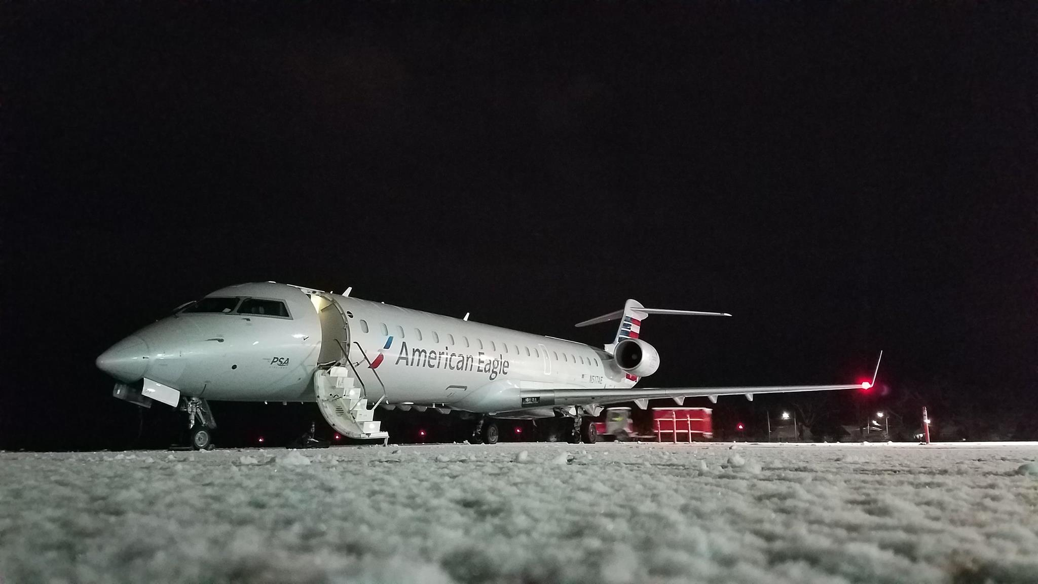 A CRJ-700, operated by PSA Airlines, sits on the ramp on 12/09/2017 after its final flight of the night from Philadelphia International Airport.